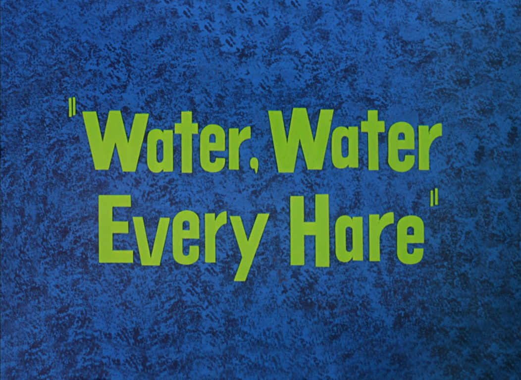 Title card for the Bugs Bunny short film "Water, Water Every Hare."